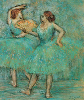 BAT0044